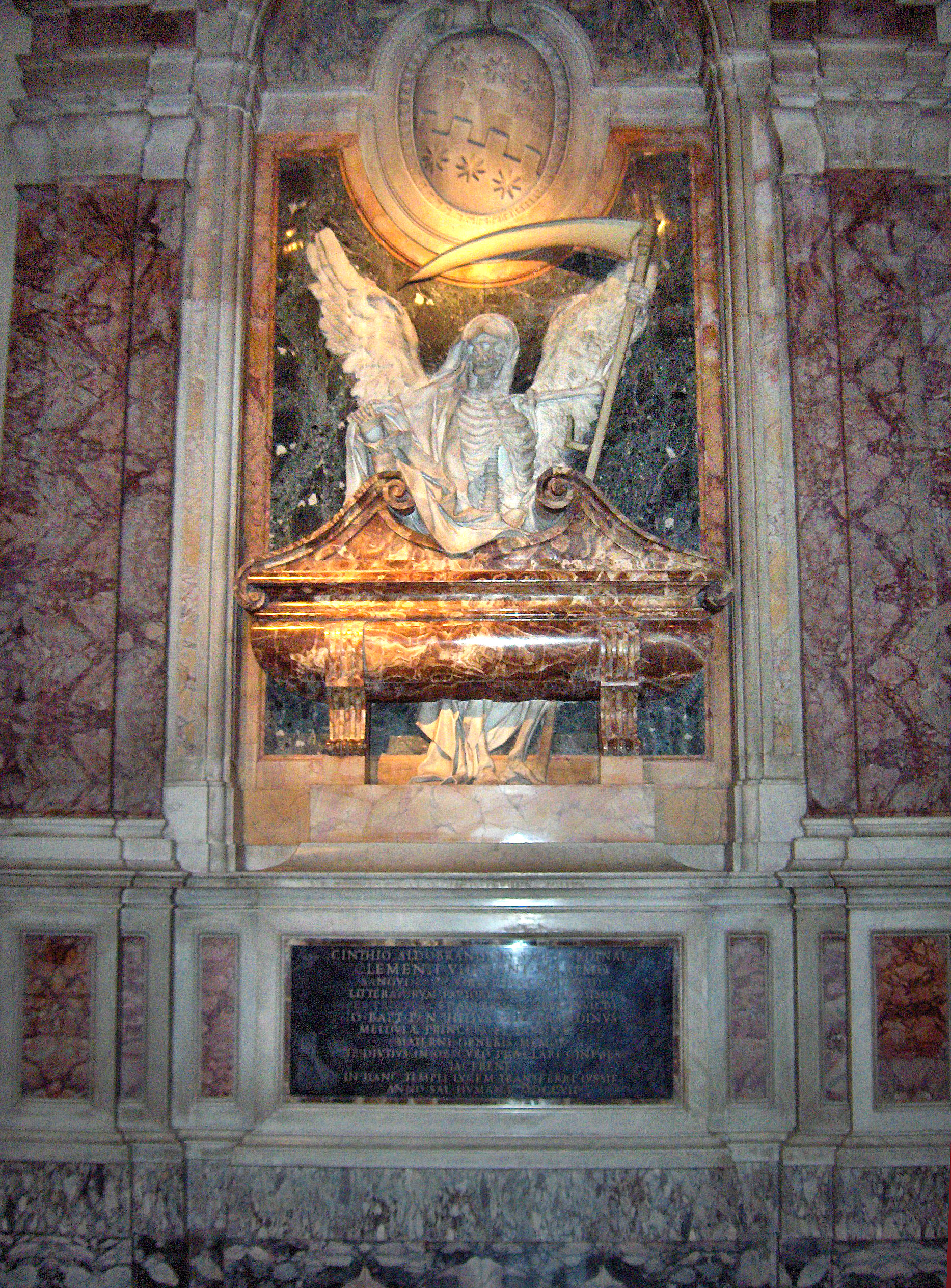 Tomb of Cardinal Cinzio Passeri Aldobrandini, decorated with imagery of the Grim Reaper, in the church S. Pietro in Vincoli, Rome, Italy